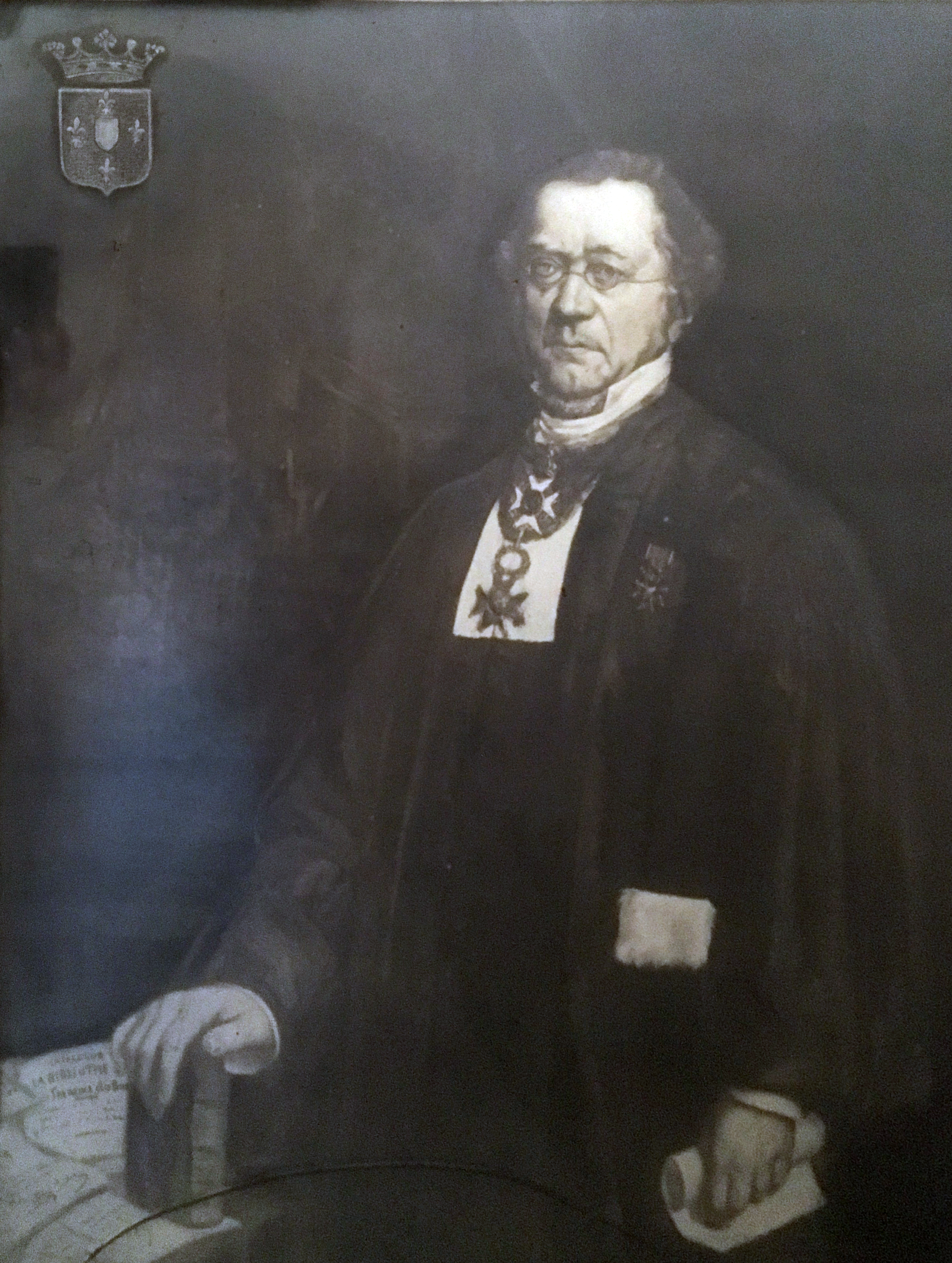 François du Bus